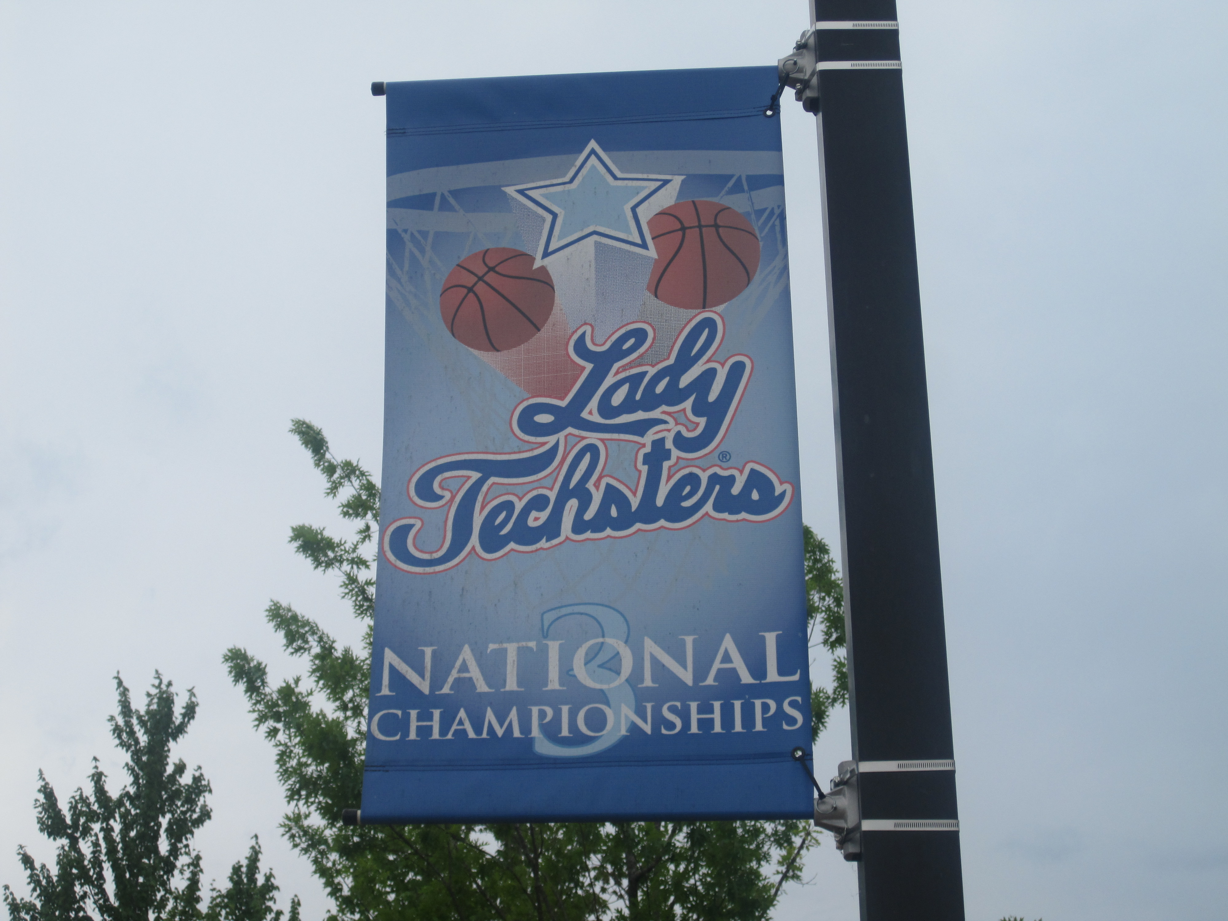 I took photo with Canon camera.